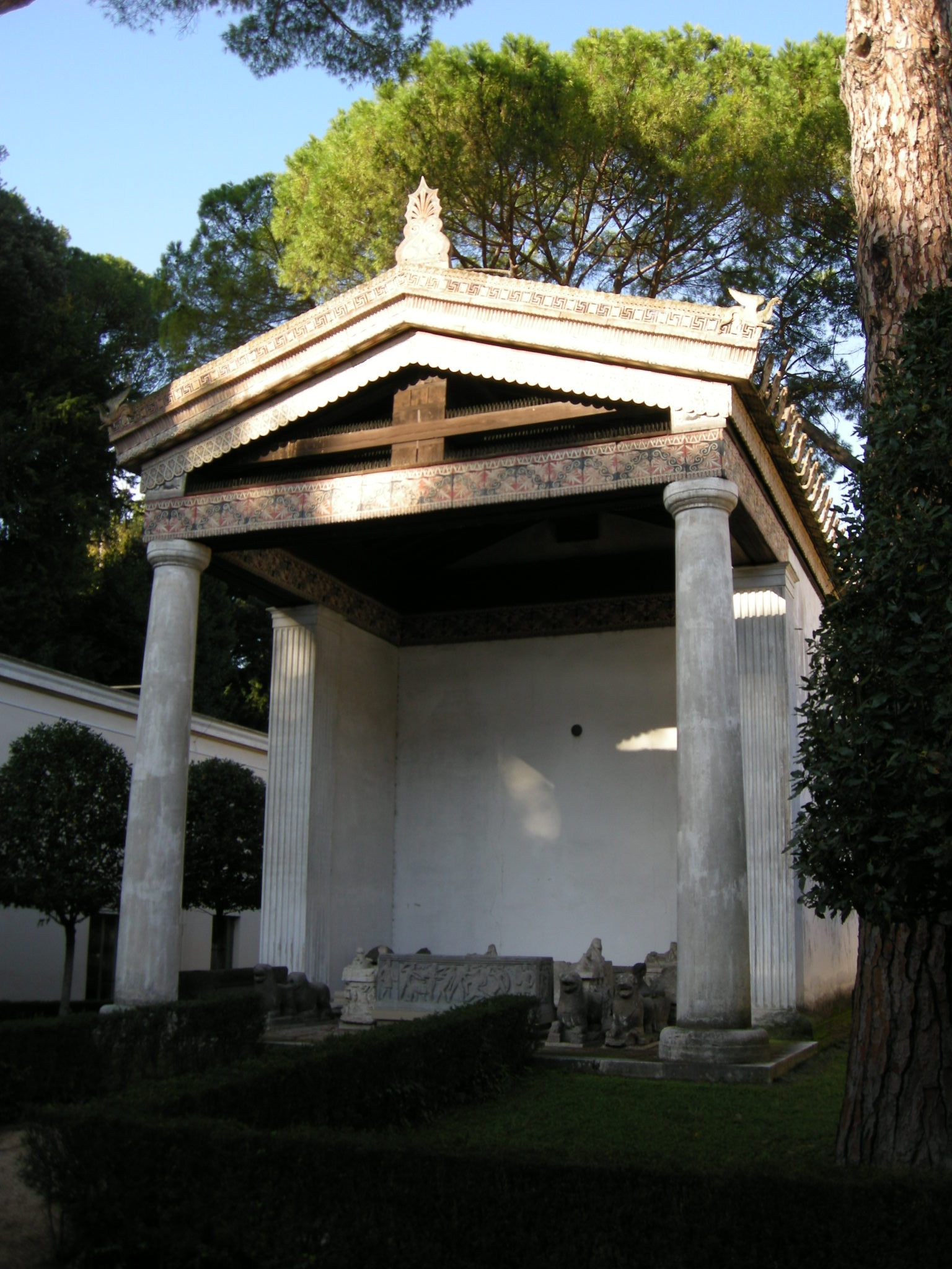 19th century reconstruction of an Etruscan temple, in the courtyard of the Villa Giulia Museum in Rome, Italy.